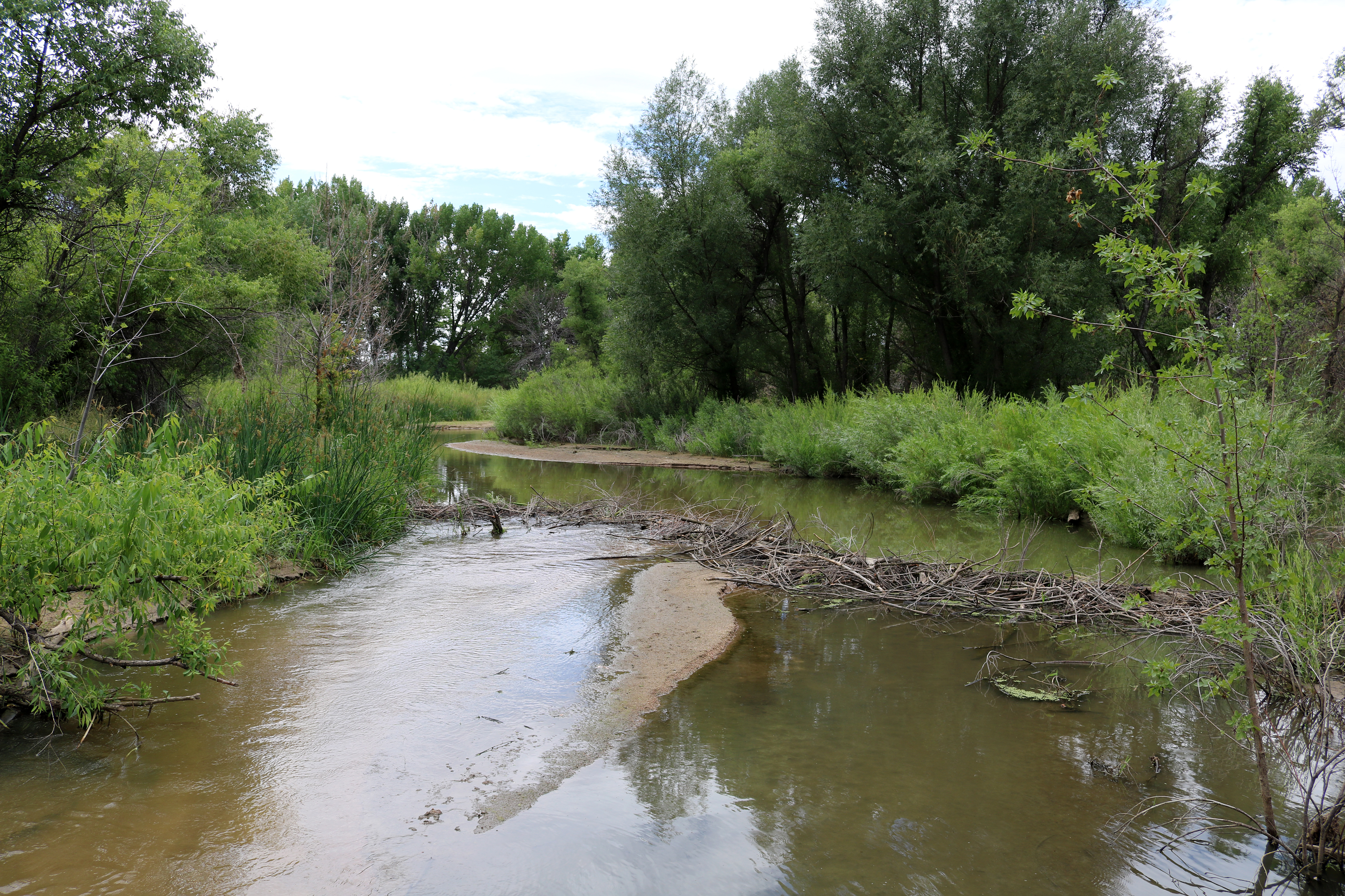 Plum Creek in Douglas County, Colorado. The picture shows the creek just before it empties into Chatfield Reservoir.